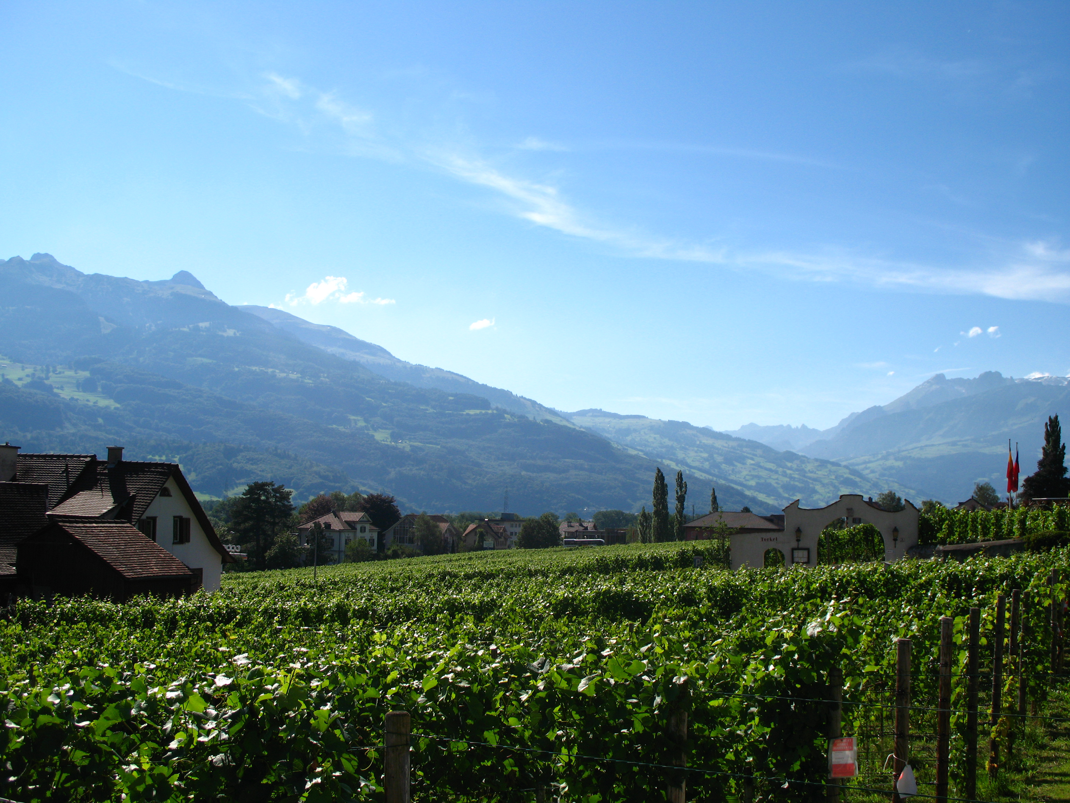 Behind Lane viewed from Mitteldorf, Vaduz, Liechtenstein